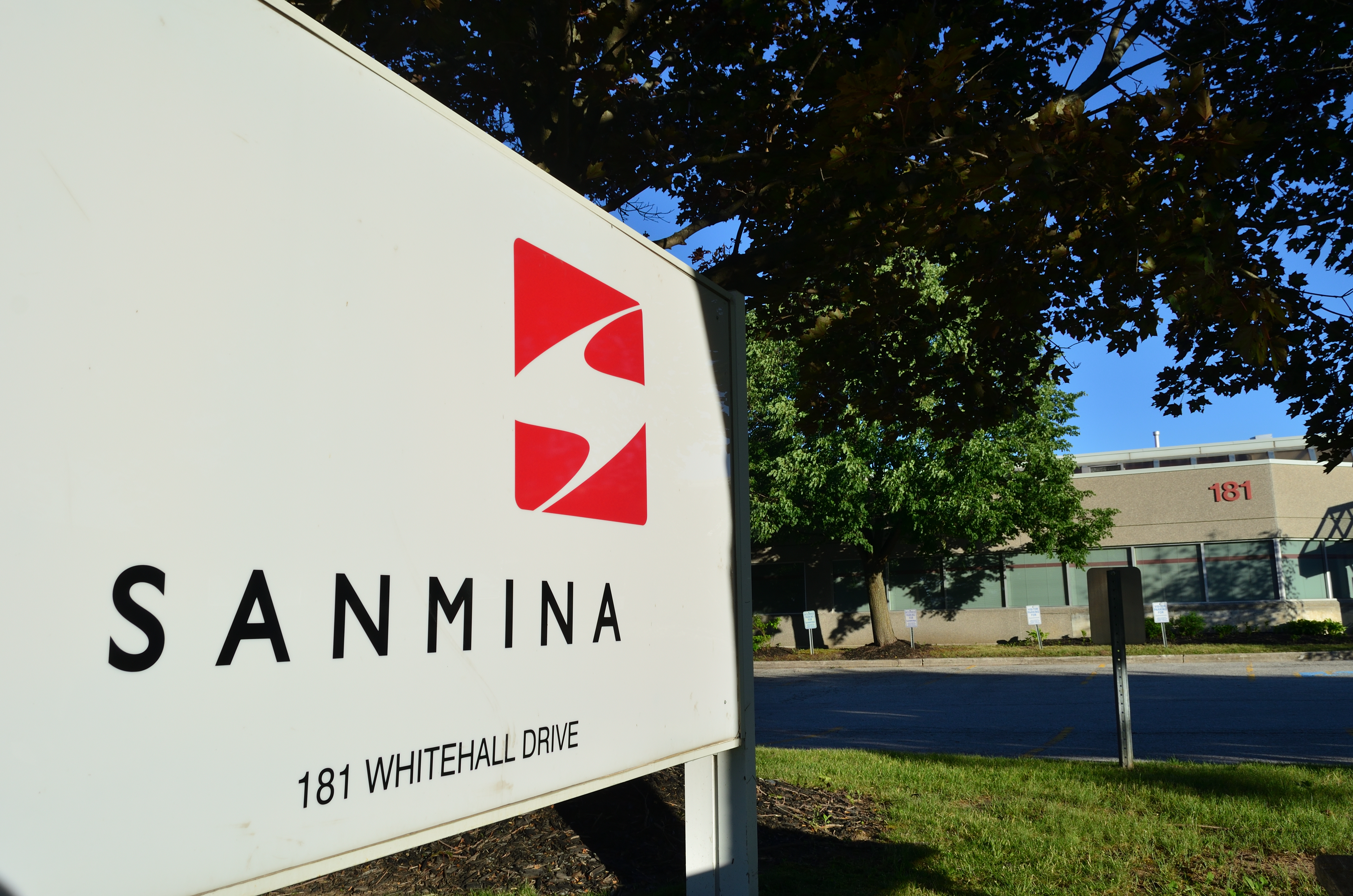 Sanmina - Address: 181 Whitehall Drive, Markham ON L3R 9T1